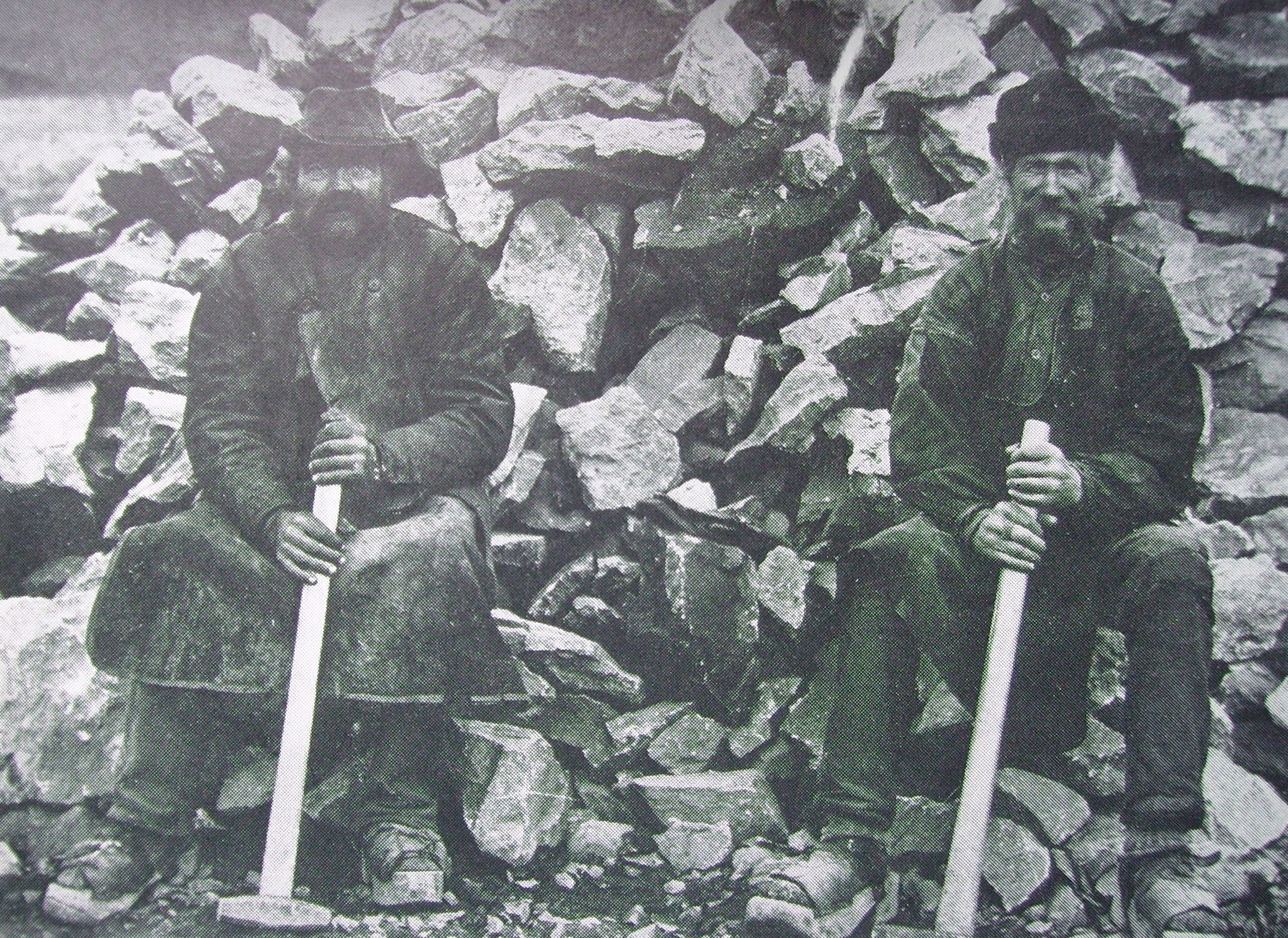 Picture of stone cutters